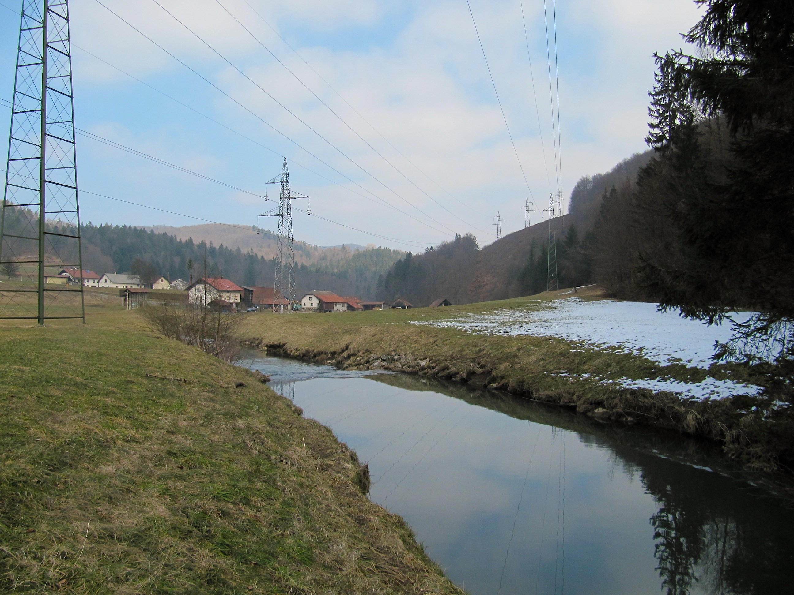 Horjulščica, river in Slovenia